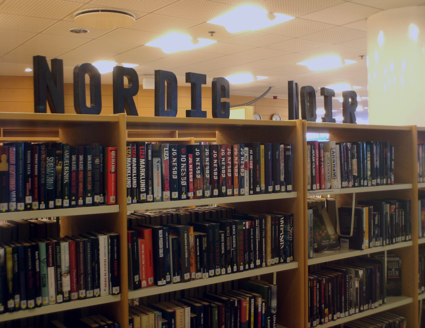 Photograph of the “Nordic Noir” collection at a Helsinki library (Kulturkontakt Nord).